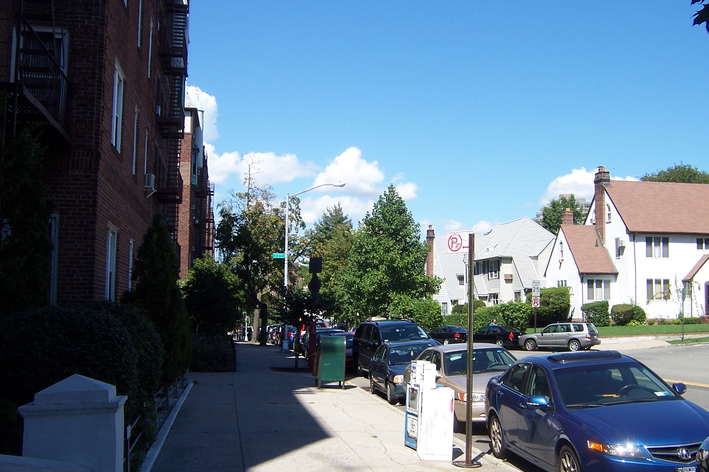 Austin Street in Forest Hills, New York, from the southeastern end by the Union Turnpike underpass